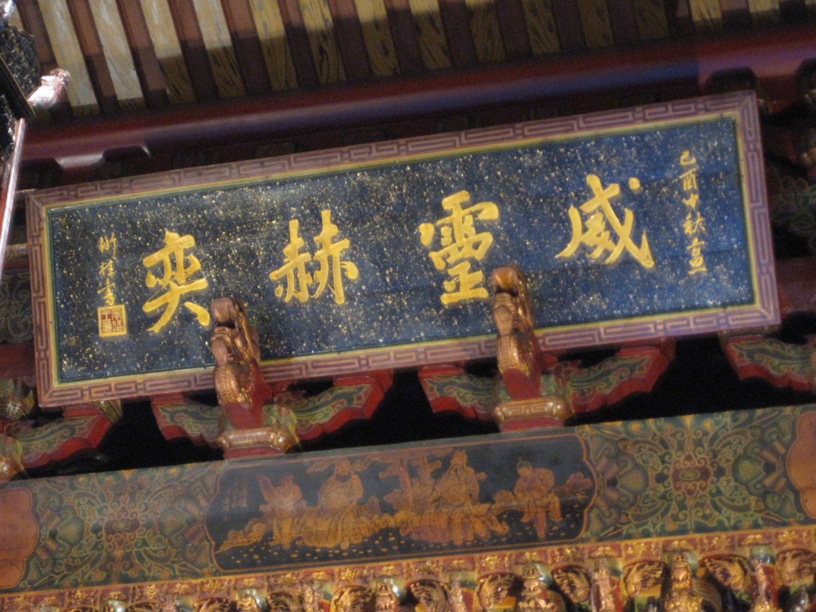 A historical plaque at Temple of Xuan Wu in Tainan, Taiwan.